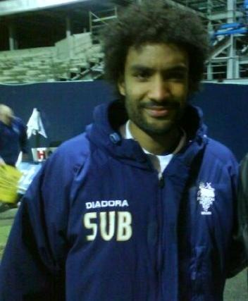 youl mawene after a home wolves where preston were victorius 2007/8 season